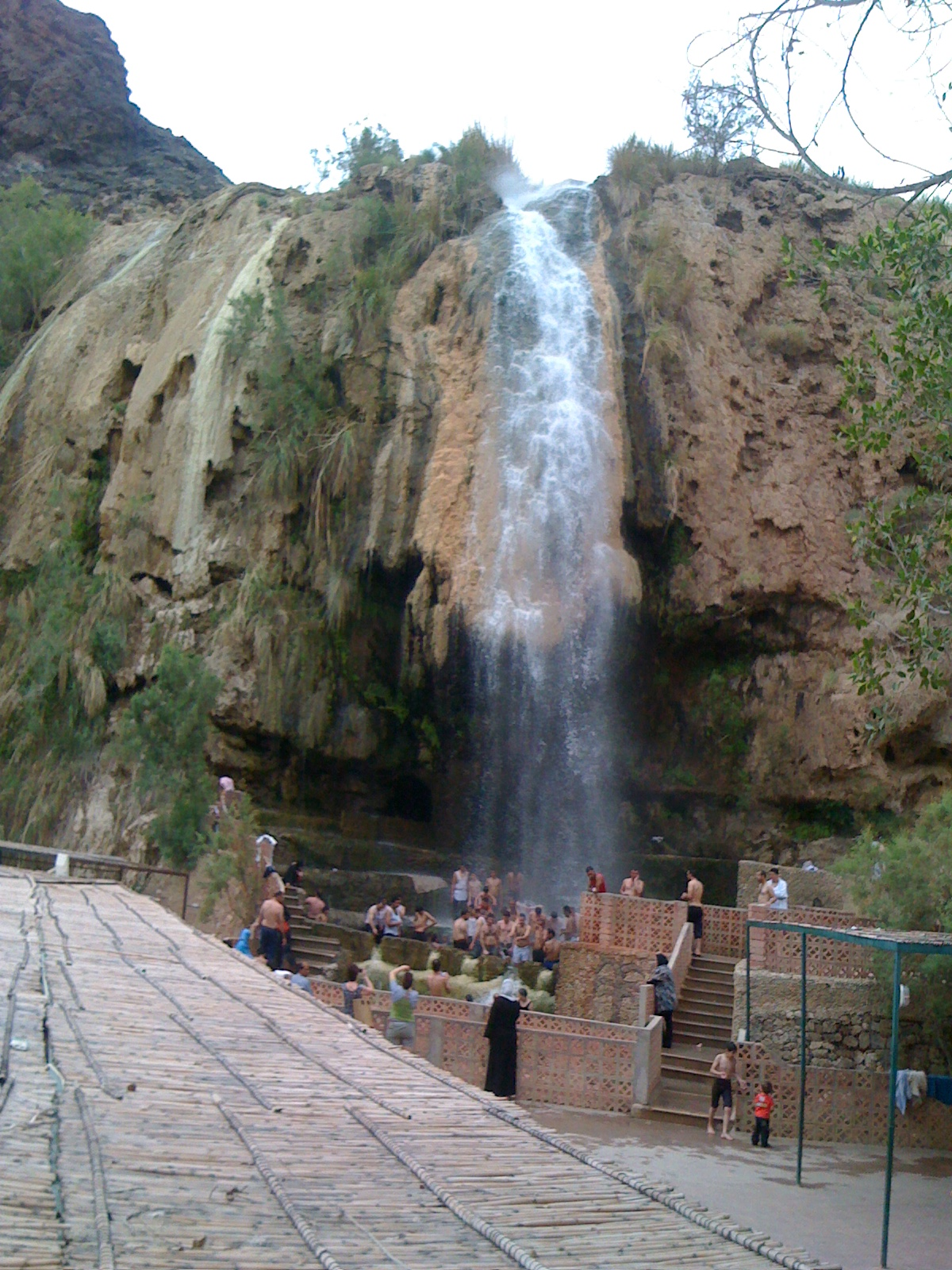 Ma'in Hot Springs